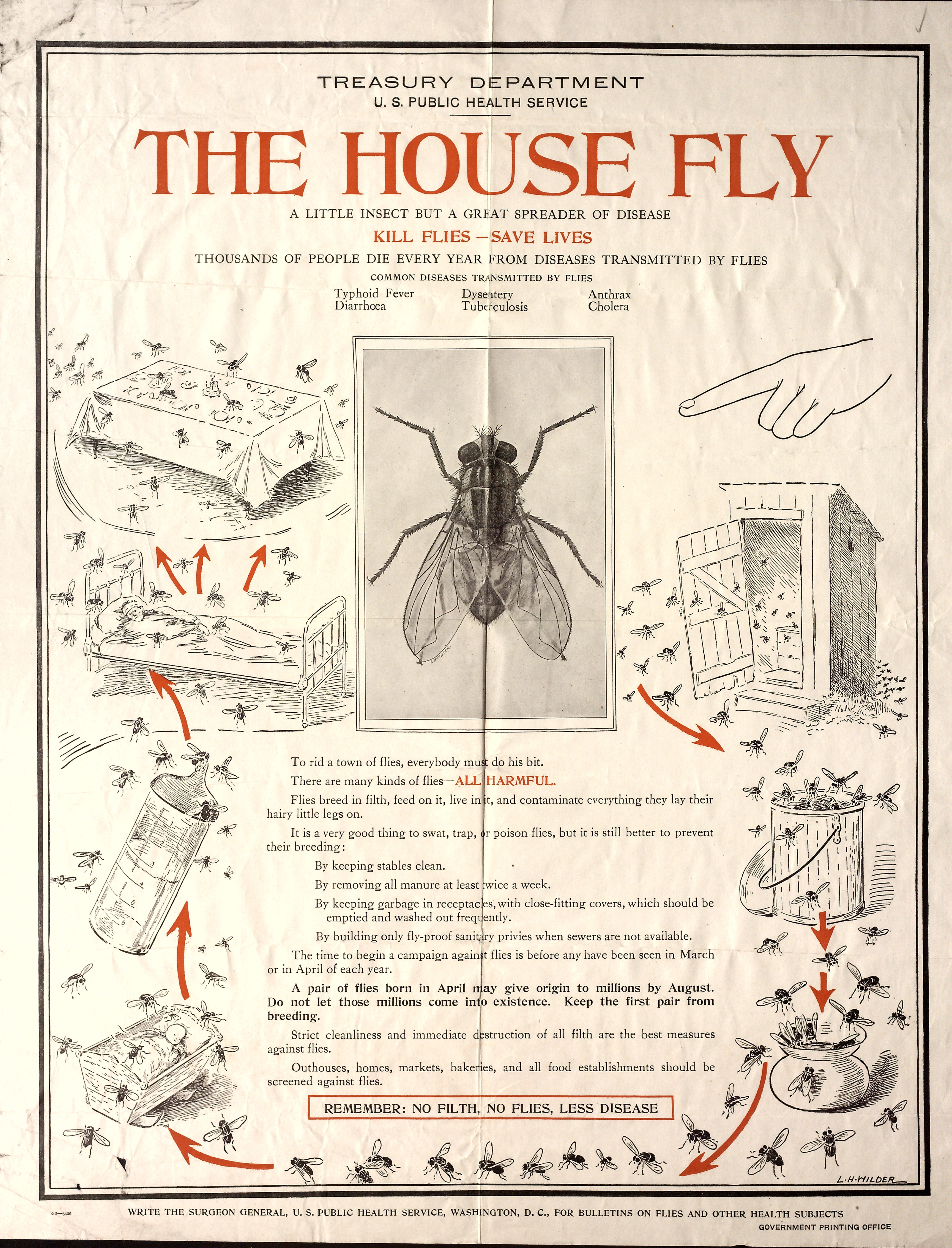 Issued by the U.S. Public Health Service, Treasury Department. Title: Illustrated circular: "The House Fly, a Little Insect but a Great Spreader of Disease," [1919]